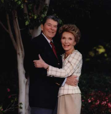 Former President Ronald Reagan and First Lady Nancy Reagan in Los Angeles, California